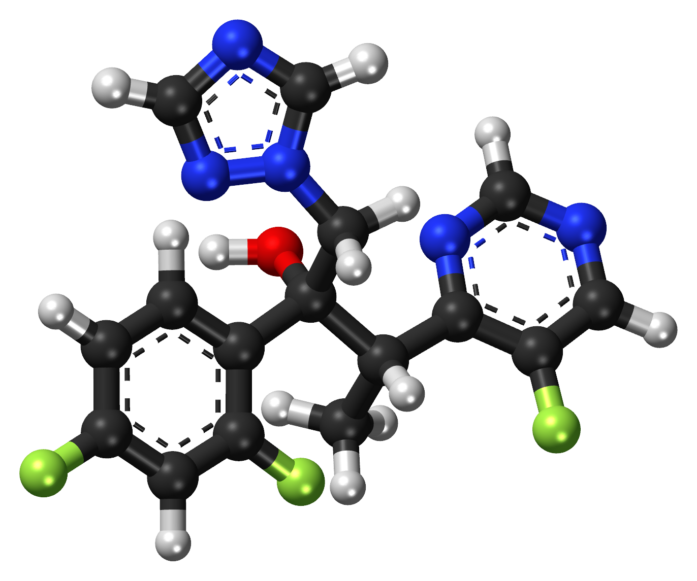 Ball-and-stick model of voriconazole (trade name VFEND)—a triazole antifungal used in the management of serious fungal infections. Created using Accelrys DS Visualizer 4.1 and Adobe Photoshop CC 2015. Colors used: Carbon, C: dark grey Hydrogen, H: light grey Nitrogen, N: blue Oxygen, O: red Fluorine, F: light green This chemical image was created with Discovery Studio Visualizer.